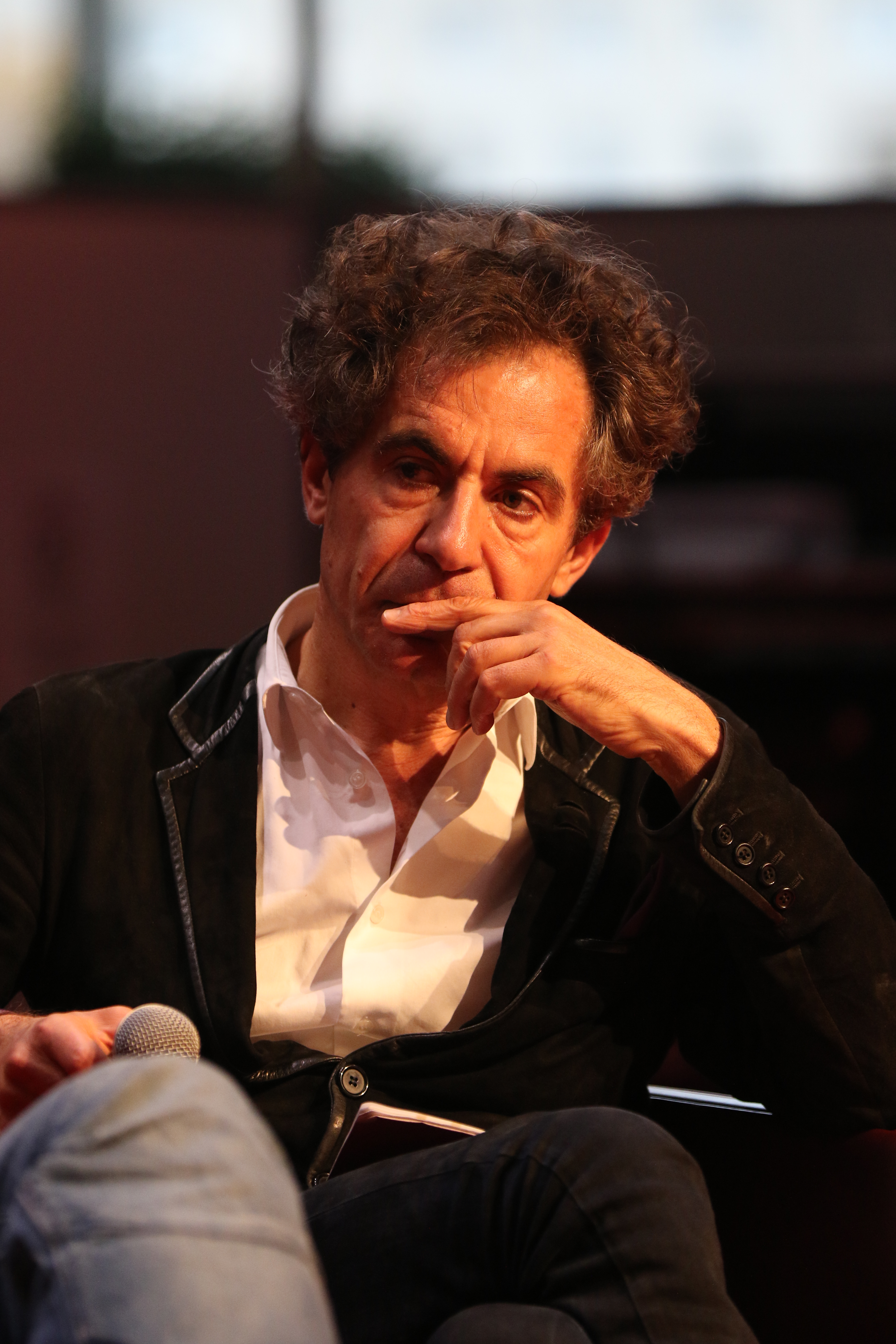 photograph taken at the 2015 edition of the "Utopiales" of Nantes.